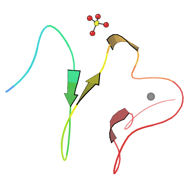 The structure of ligand-binding repeat 5 (LR5) of the LDL Receptor, which contains a calcium ion (grey) coordinated by acidic residues that lie at the carboxy-terminal end of the domain, and a sulfate ion (yellow and red spheres). Mutations affecting the coordination of the calcium or otherwise alter the structure of this domain are found in patients with the disease familial hypercholesterolaemia.